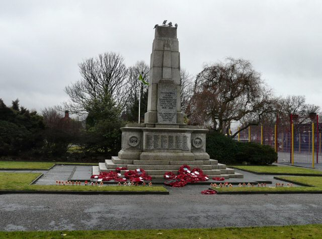 Denton War Memorial, Denton, Greater Manchester, England.